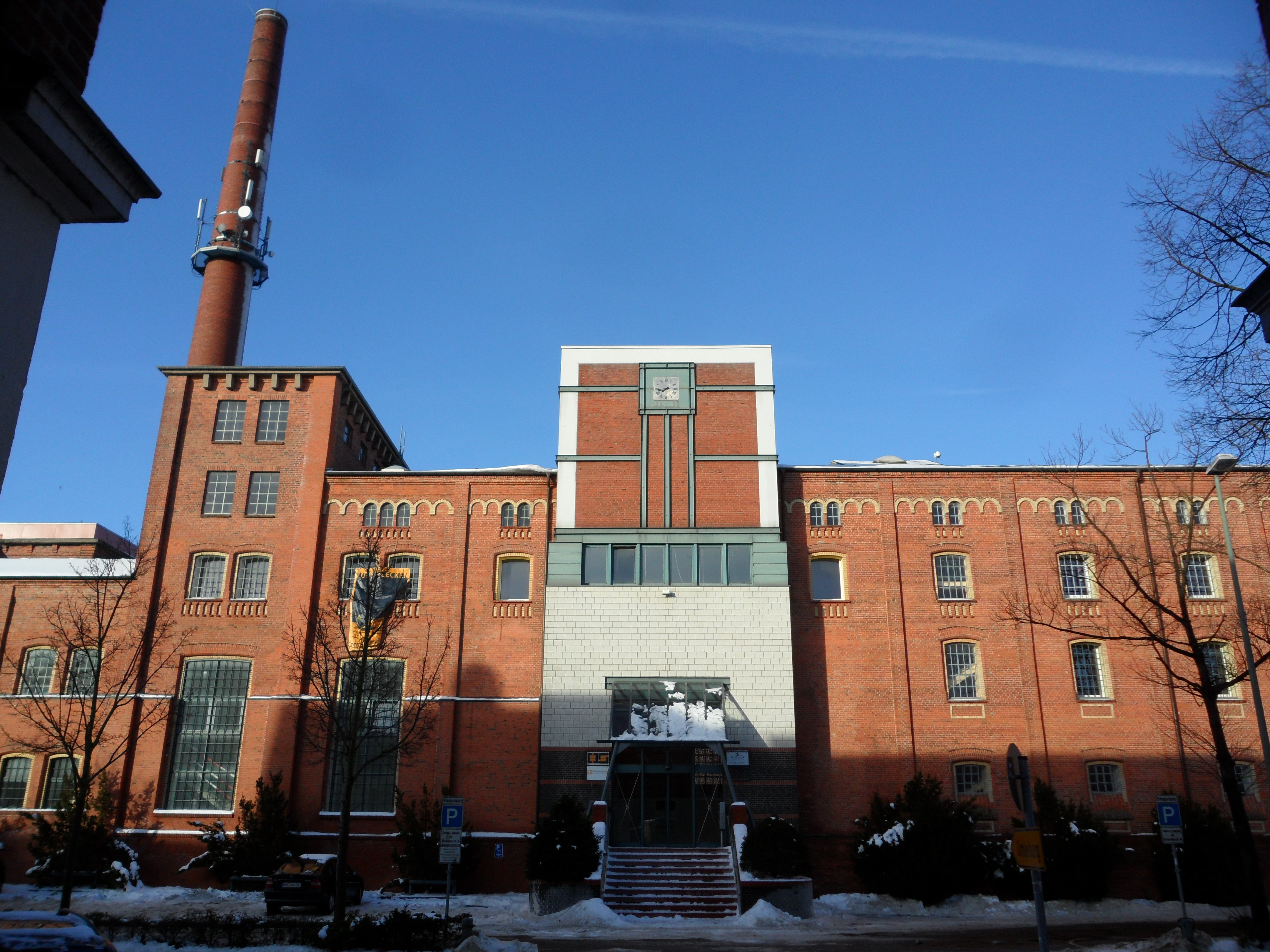 Main entrance of the former Holsten-Brauerei in Neumünster